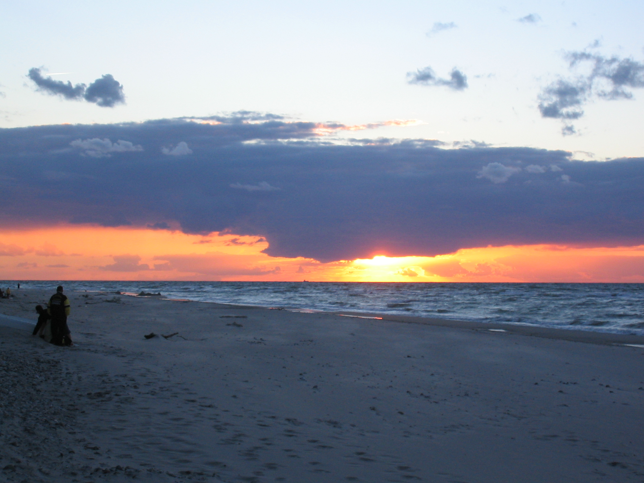 Sunset near Nonnevitz (Dranske) on Rügen island, Germany